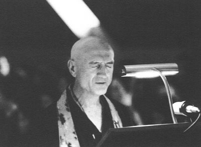 Info: Phillip kapleau giving teisho Source: Wikipedia Original uploader (attribute work to this person): User:Golgofrinchian URL: [1]